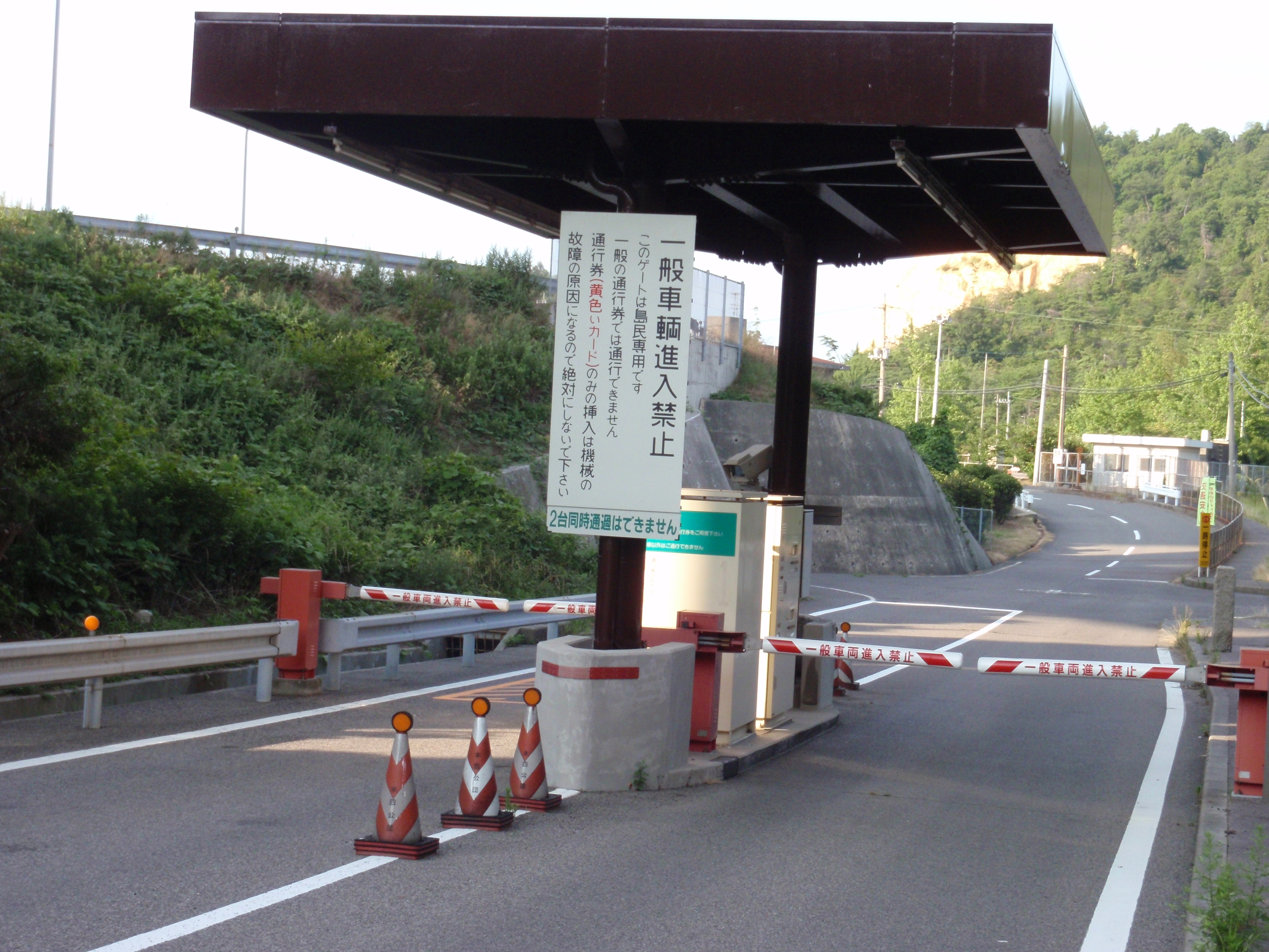 Yoshima Interchange